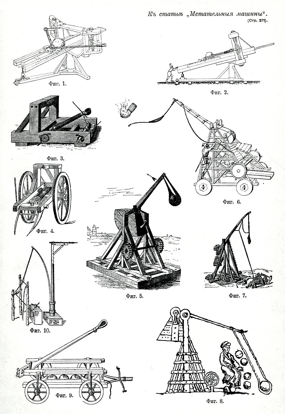 Mechanical artillery